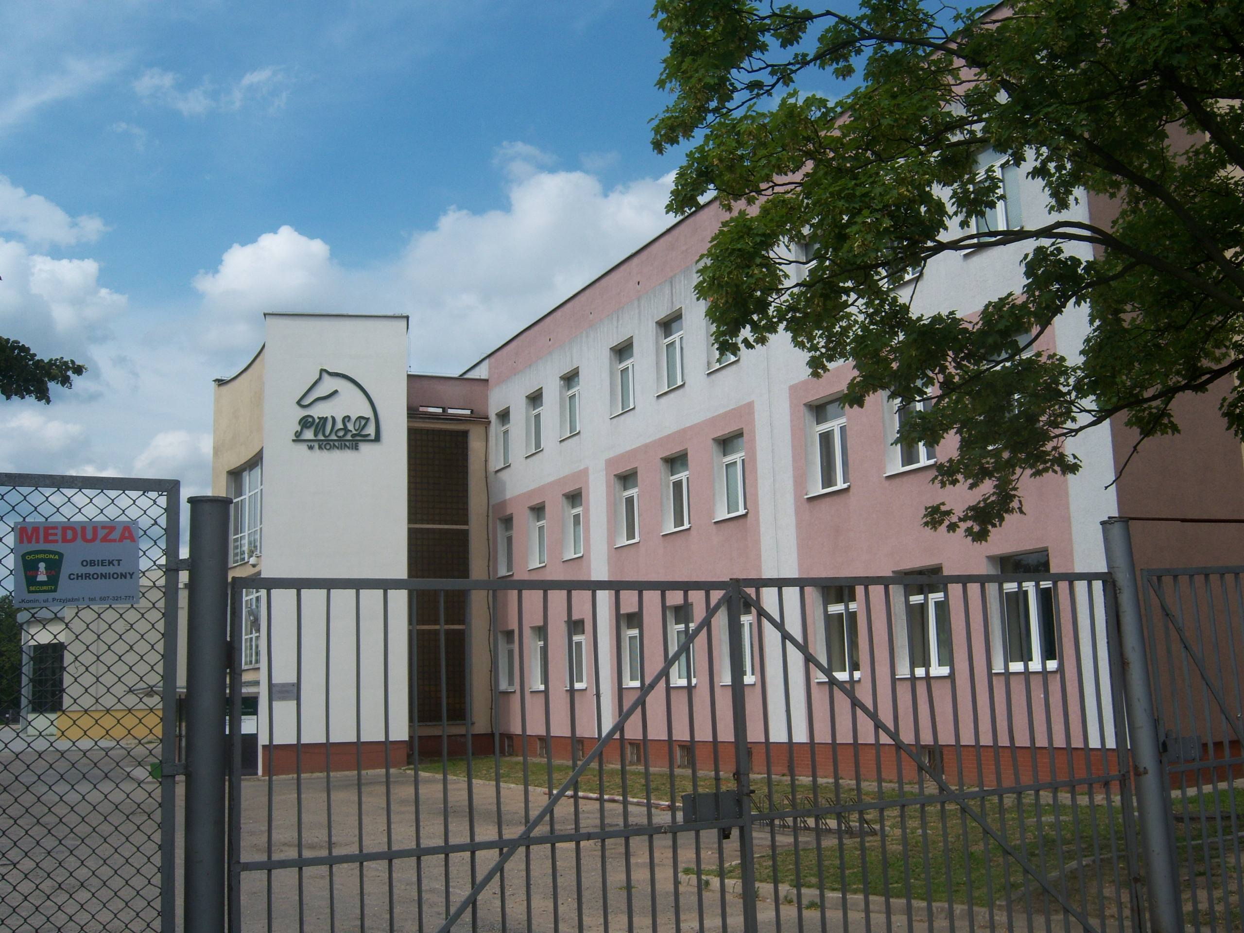 State Higher Vocational School at Popiełuszki Street in Konin (Morzysław District)